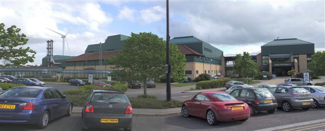 Antrim Hospital, Antrim The hospital was officially opened in HRH The Prince of Wales on Wednesday, 6th July 1994